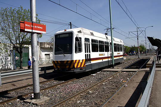 Nuestra Señora de Fátima station on the Buenos Aires Premetro.